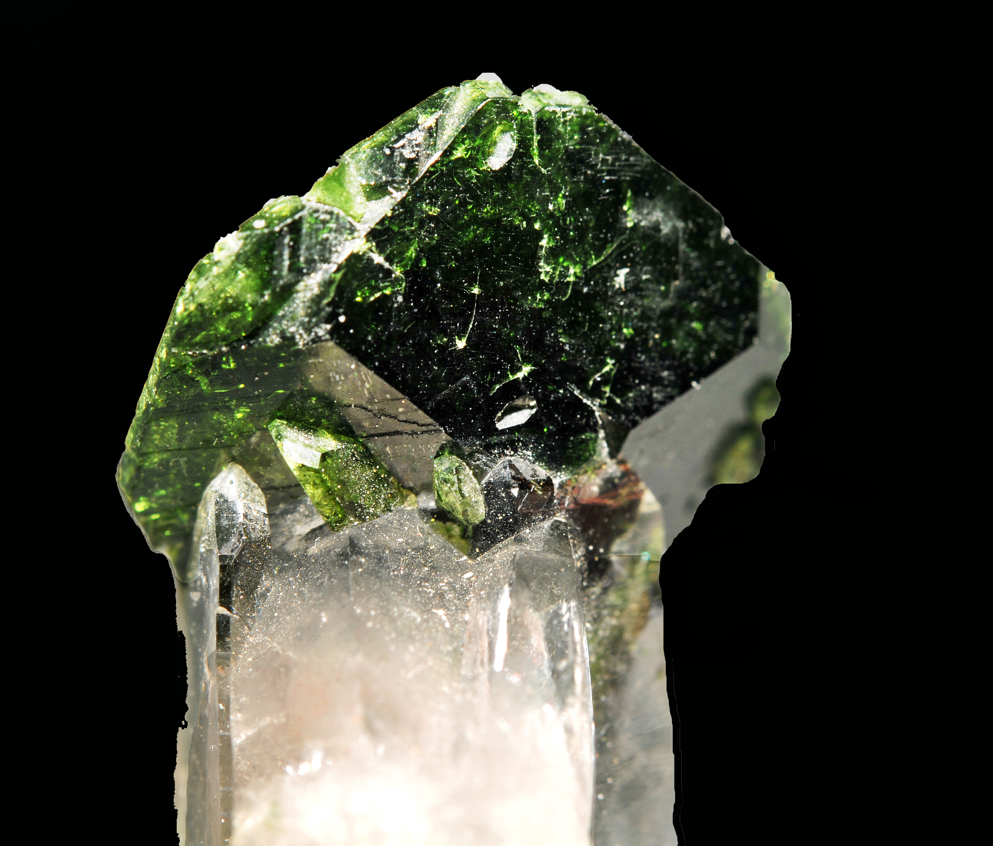 crystals of tourmaline var. uvite, crystals de quartz : Pomba pit, Serra das Éguas, Brumado (Bom Jesus dos Meiras), Bahia, Brazil